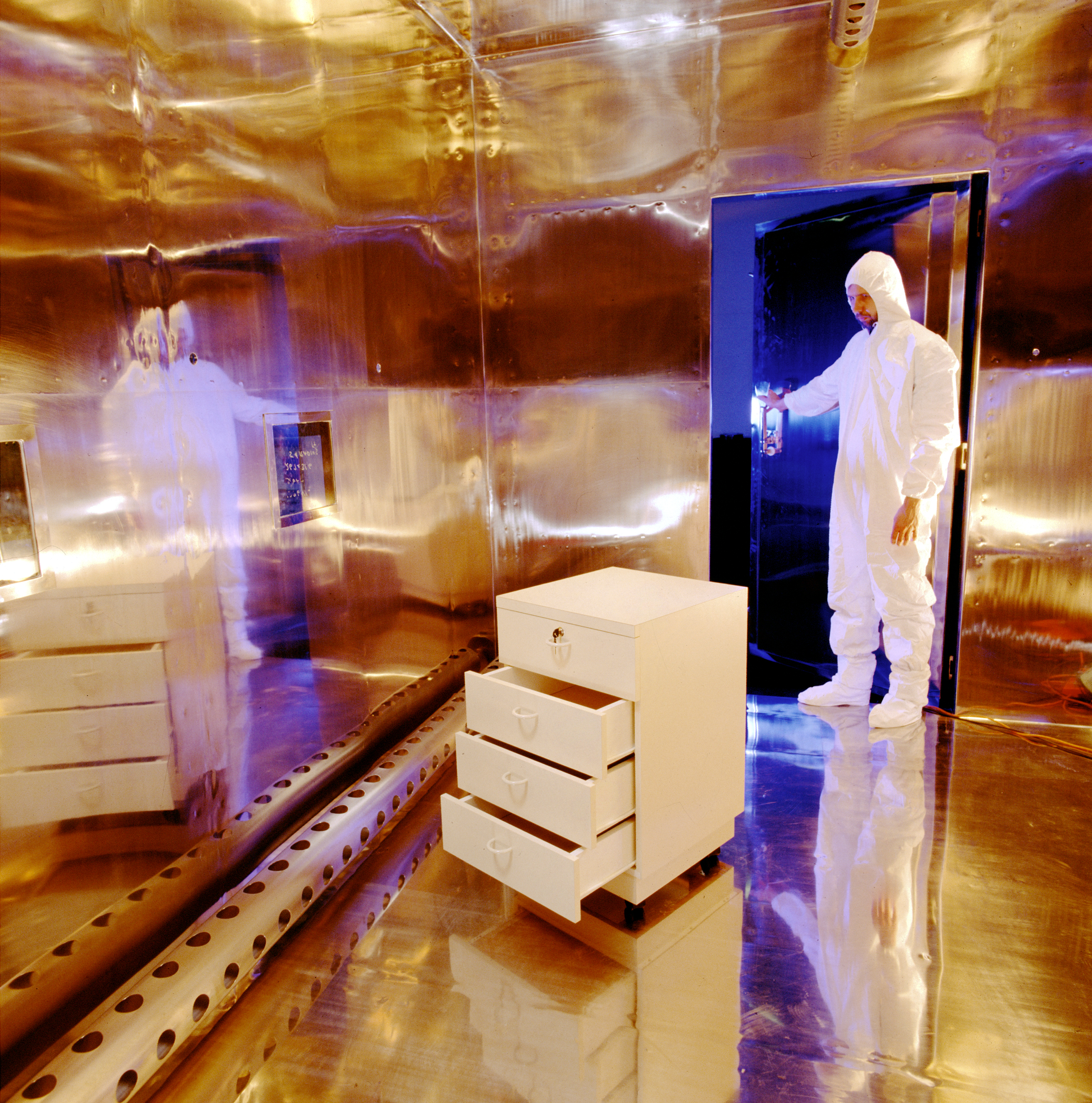 Chamber for measurement of volatile organic compounds emitted from furnishings. Photo credit: Tracey Nicholls